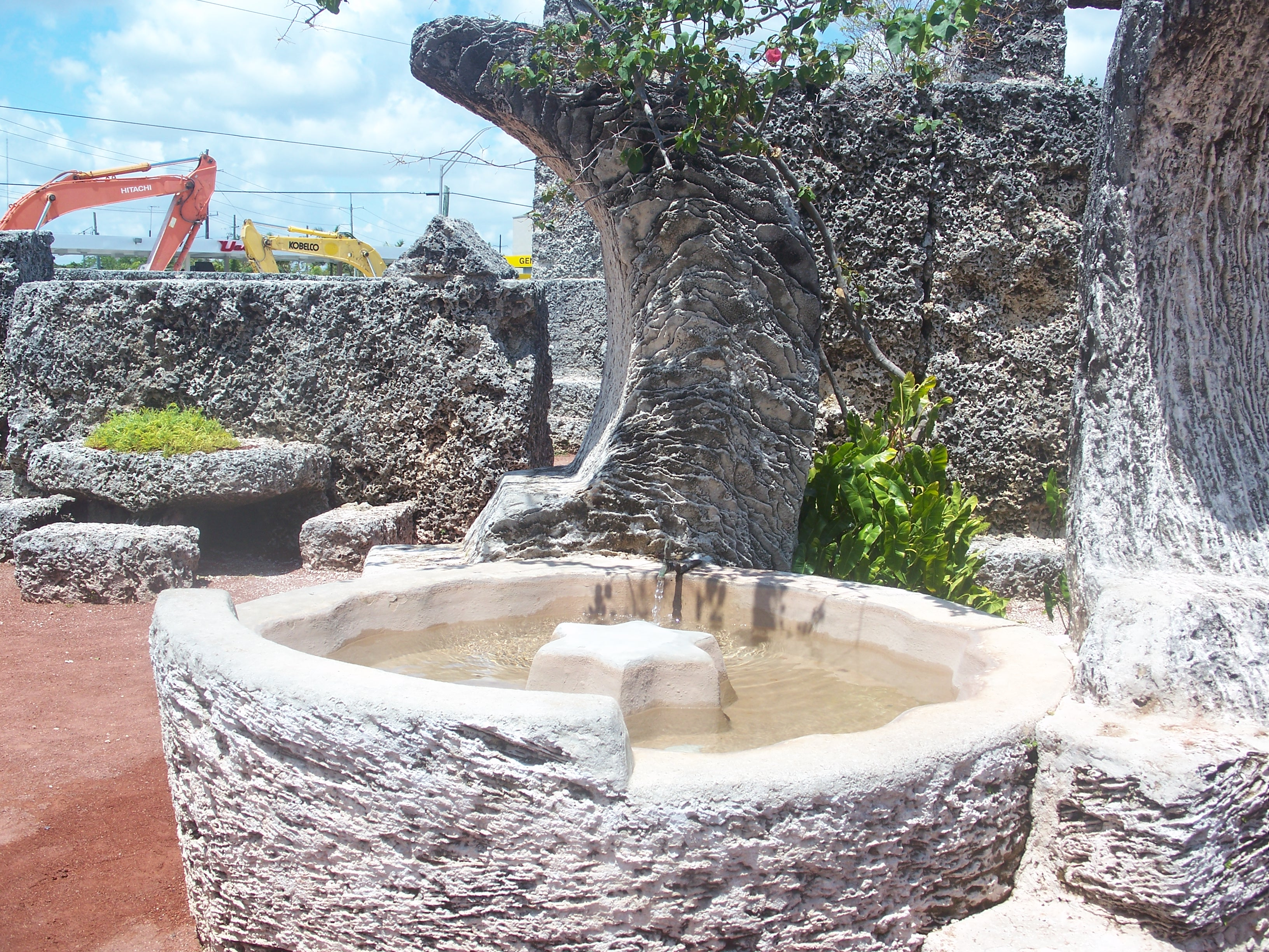 Homestead, Florida: Coral Castle: Moon fountain